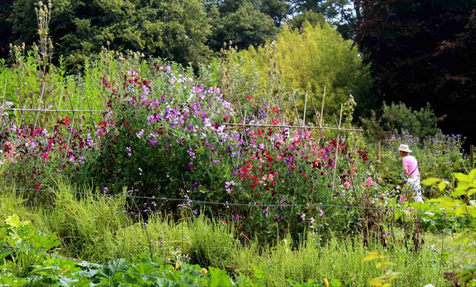 UK PytHouse kitchen garden - small part with flowers